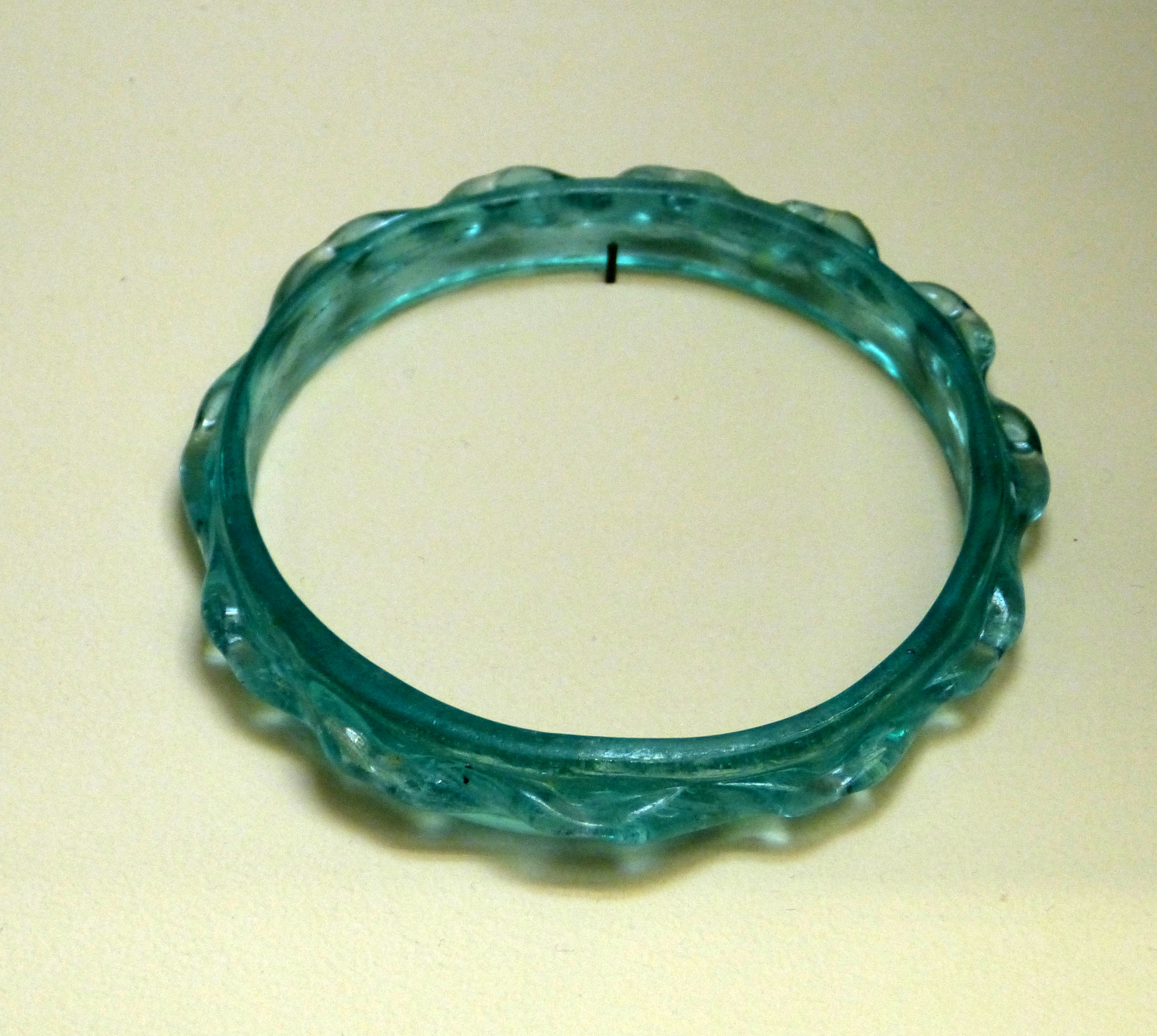 Straubing ( Lower Bavaria ). Gäubodenmuseum: Latene glass bracelet, from Straubing - Bajuwarenstraße.